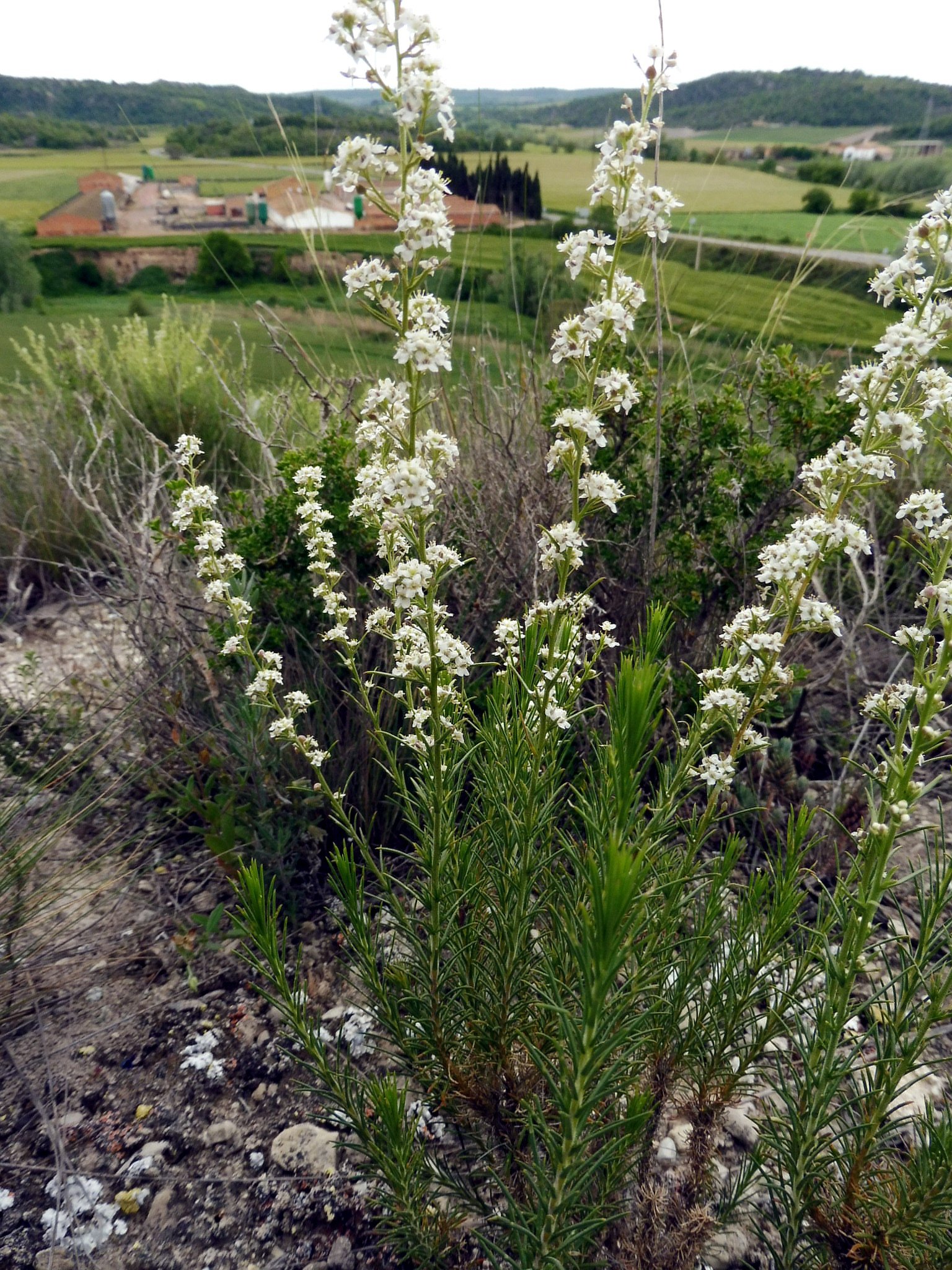 Lepidium subulatum. In Torà (Segarra-Catalunya). To 465 m. altitude